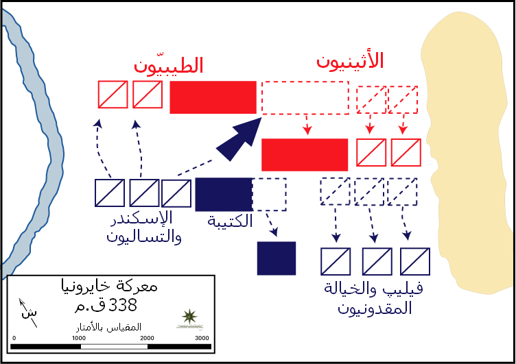 svg version (graphic details are in bitmap, but text is vectored so it can be edited with Inkscape)